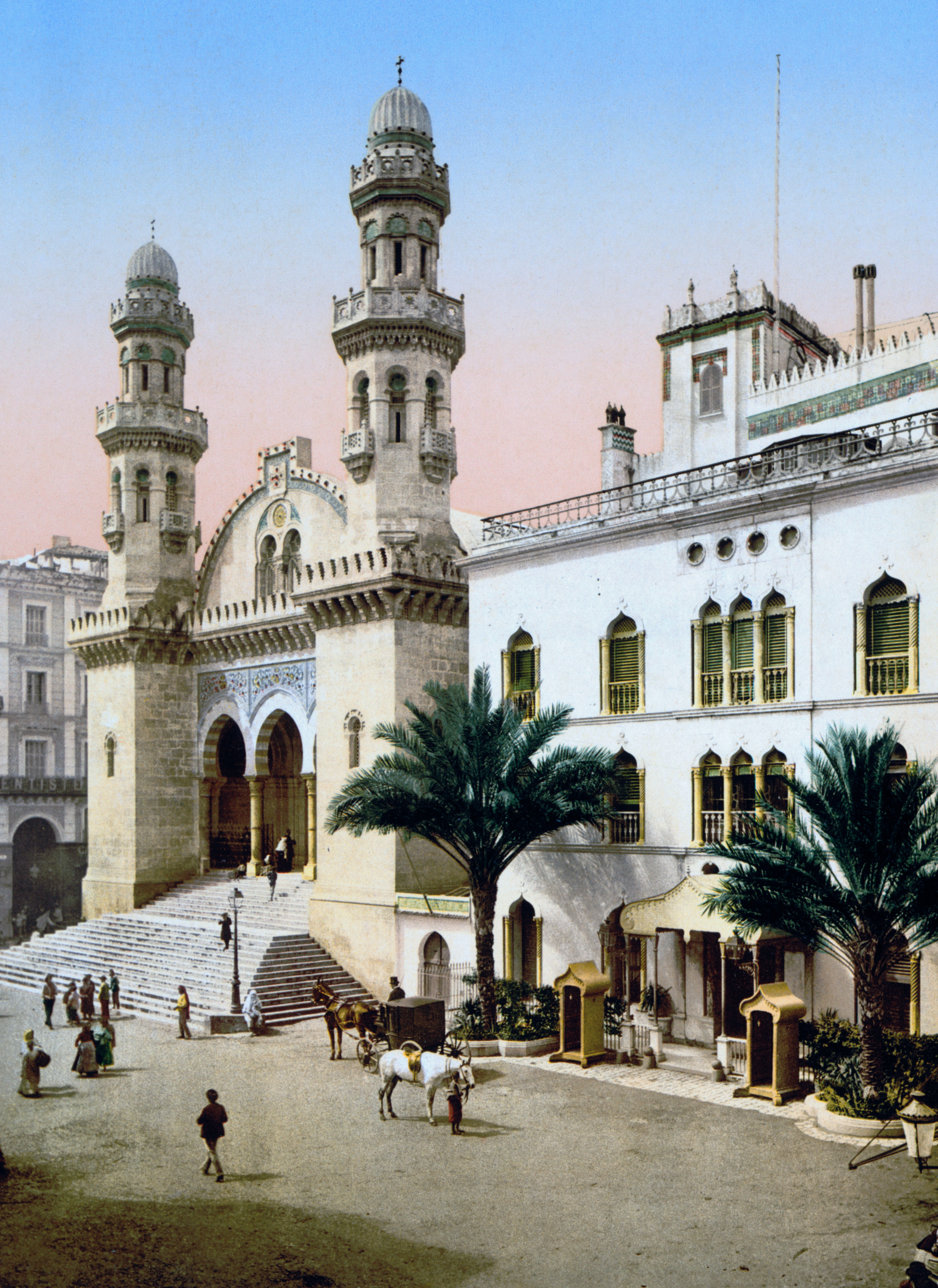 The Ottoman Ketchaoua Mosque (built 1612) — in Algiers, French Algeria. Photographed in 1899, during the period when it was converted into the French colonial Cathedral Saint-Philippe d'Alger (1845-1962).